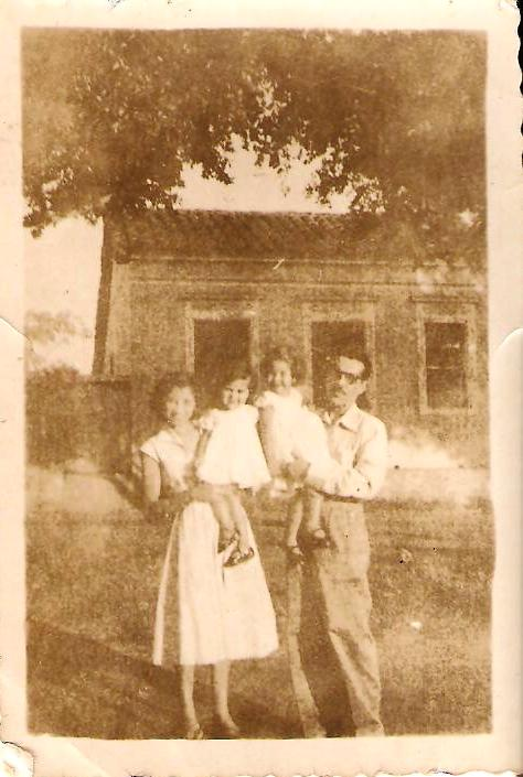 Arquivo Memorial Dr. Romildo Borges Mendes